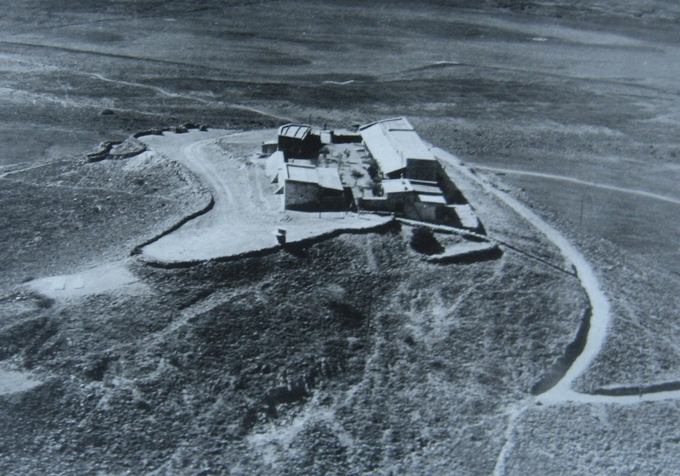 French military post at Ali-Sabieh, near the French Somaliland-Ethiopia border. Built on an outcrop, the military post kept watch on the border and on the Djibouti-Addis Ababa railway that passed nearby. Photo from c. 1940.